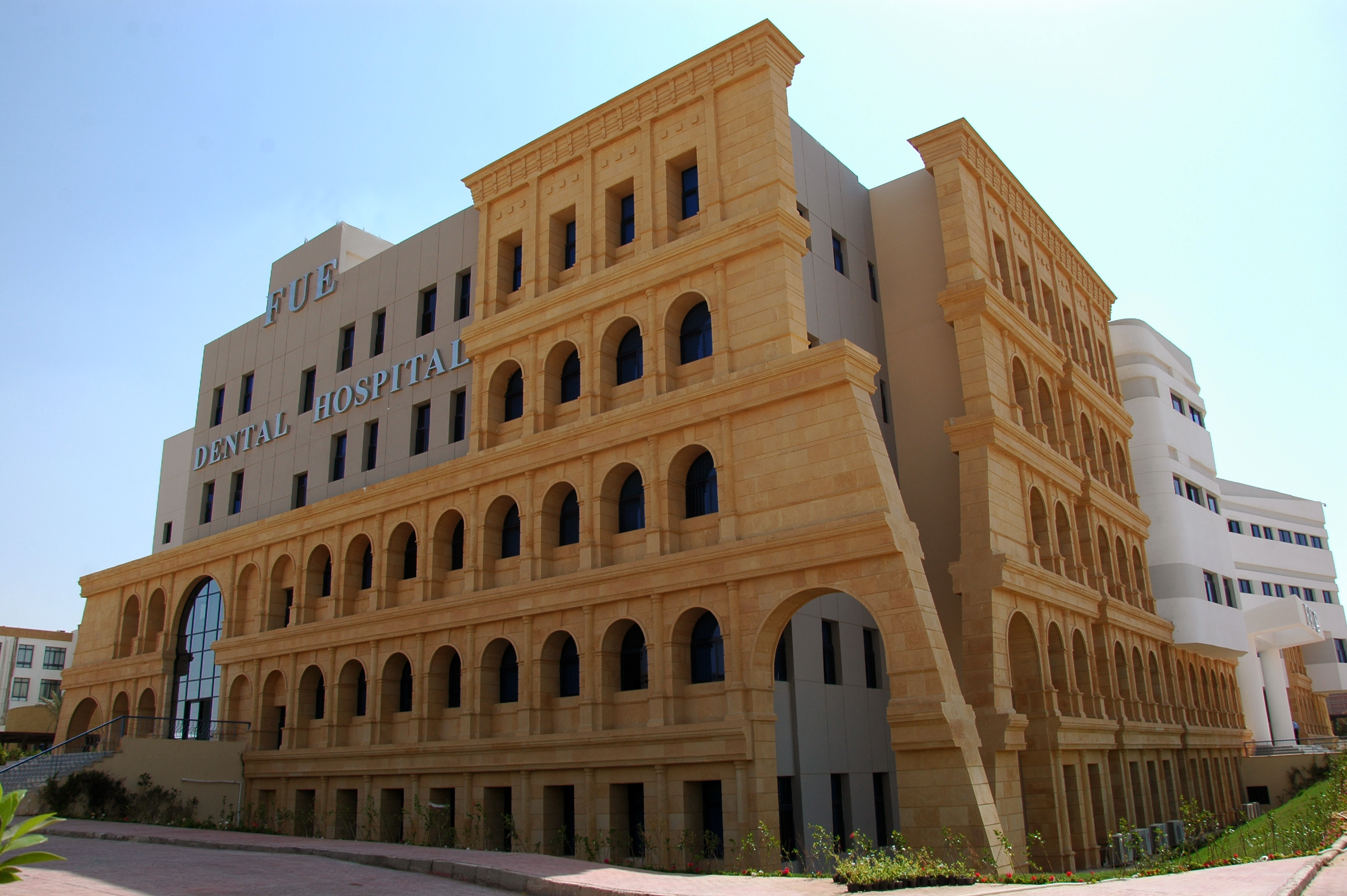 FUE DENTAL HOSPITAL